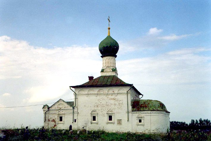 All Sainys Church in Troitse-Danilov Monastery (Pereslavl-Zalessky)